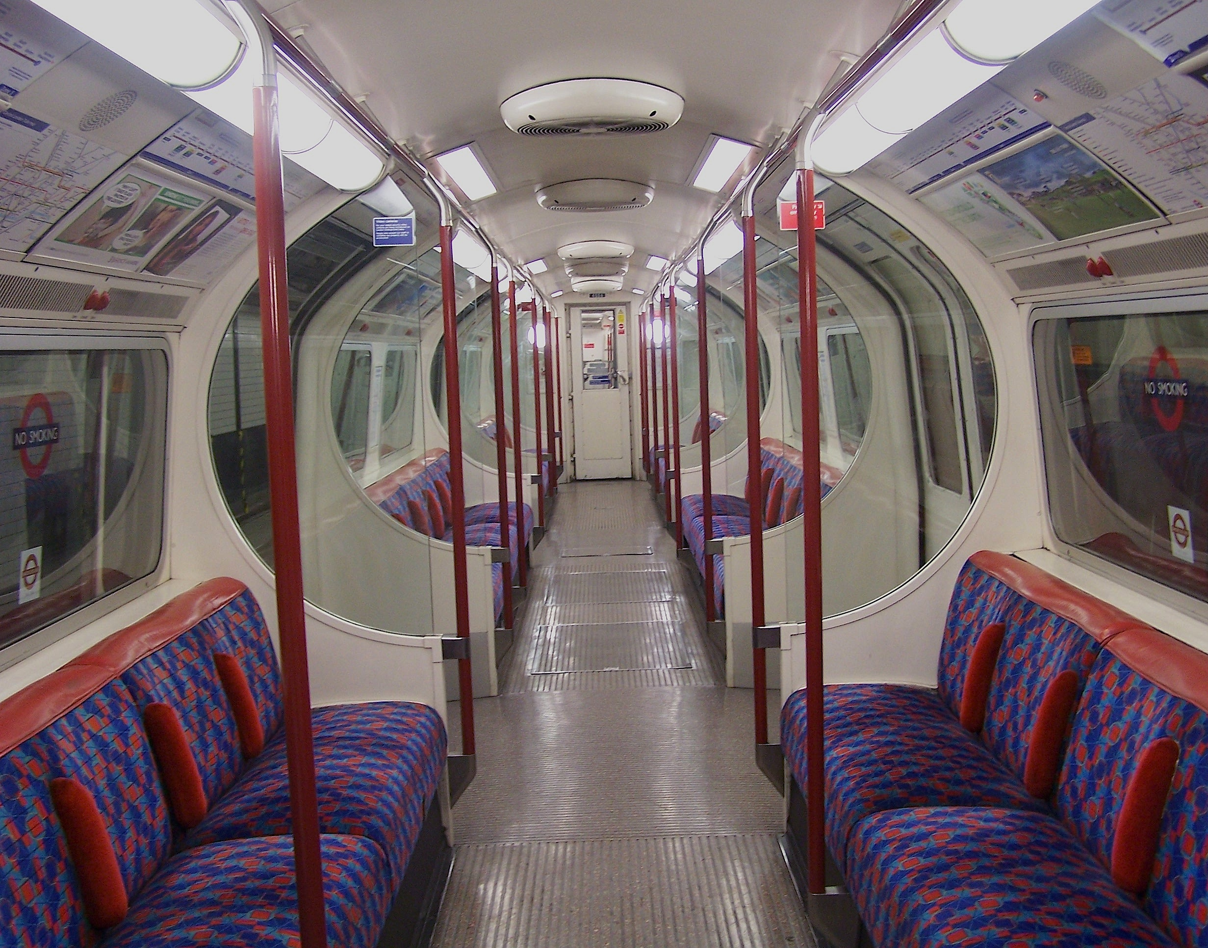 The refurbished interior of a 72 Tube Stock Trailer vehicle